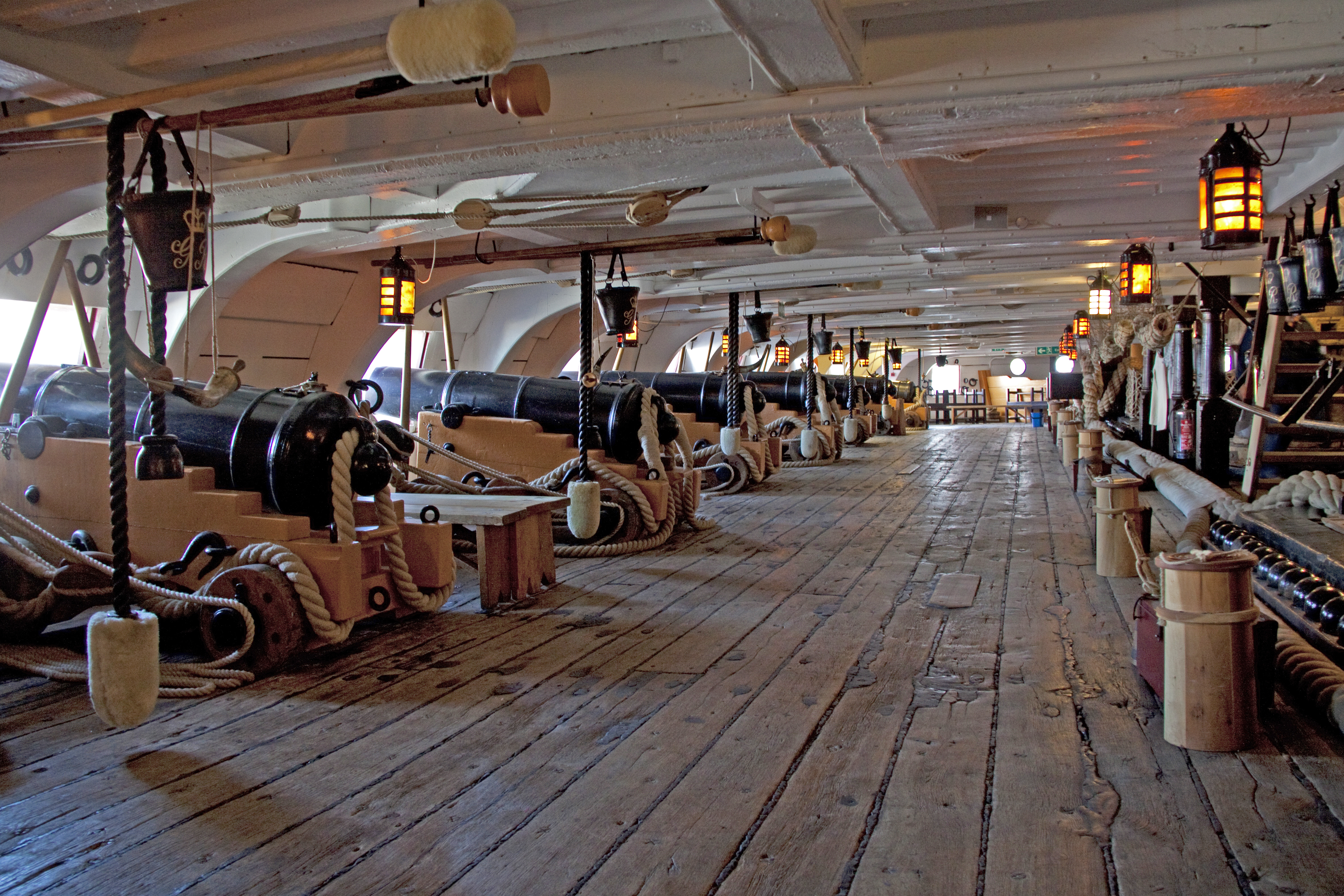 Victory 32pdr gundeck